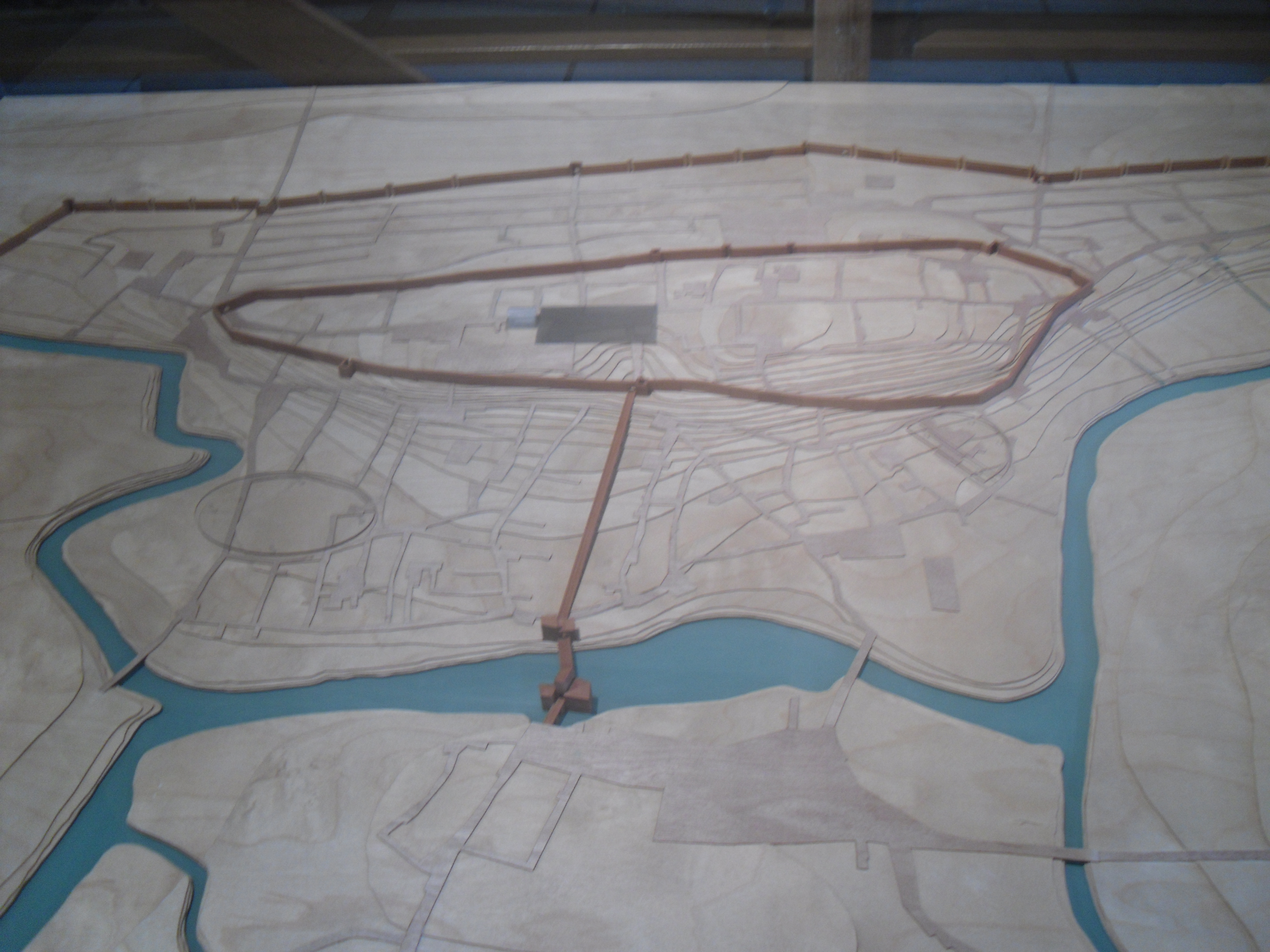 Reconstruction of Rieti during Roman empire